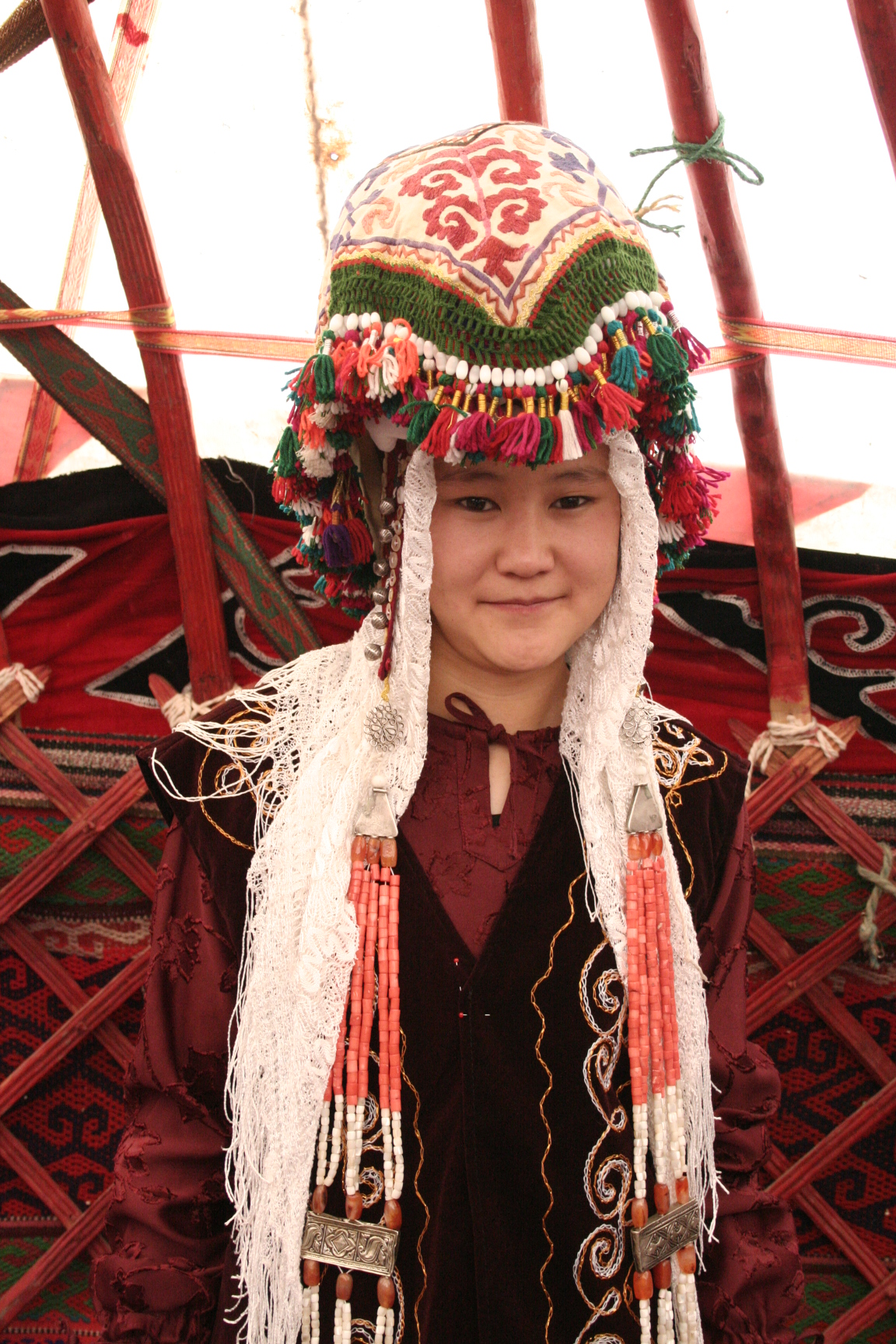 An ethnic Kyrgyz teenager girl from the Ulupamir village in the Van province, Turkey. 21.06.2009.Кыргызча: Вандагы кыргыз кыз. Ал турмушка чыгып жаткан кыздар салынчу келек (элечек) кийип алган. Улуу Памир кыштагы, Түркия. 2009-жылдын 21-июну. А.Ботобекова тарткан сүрөт.